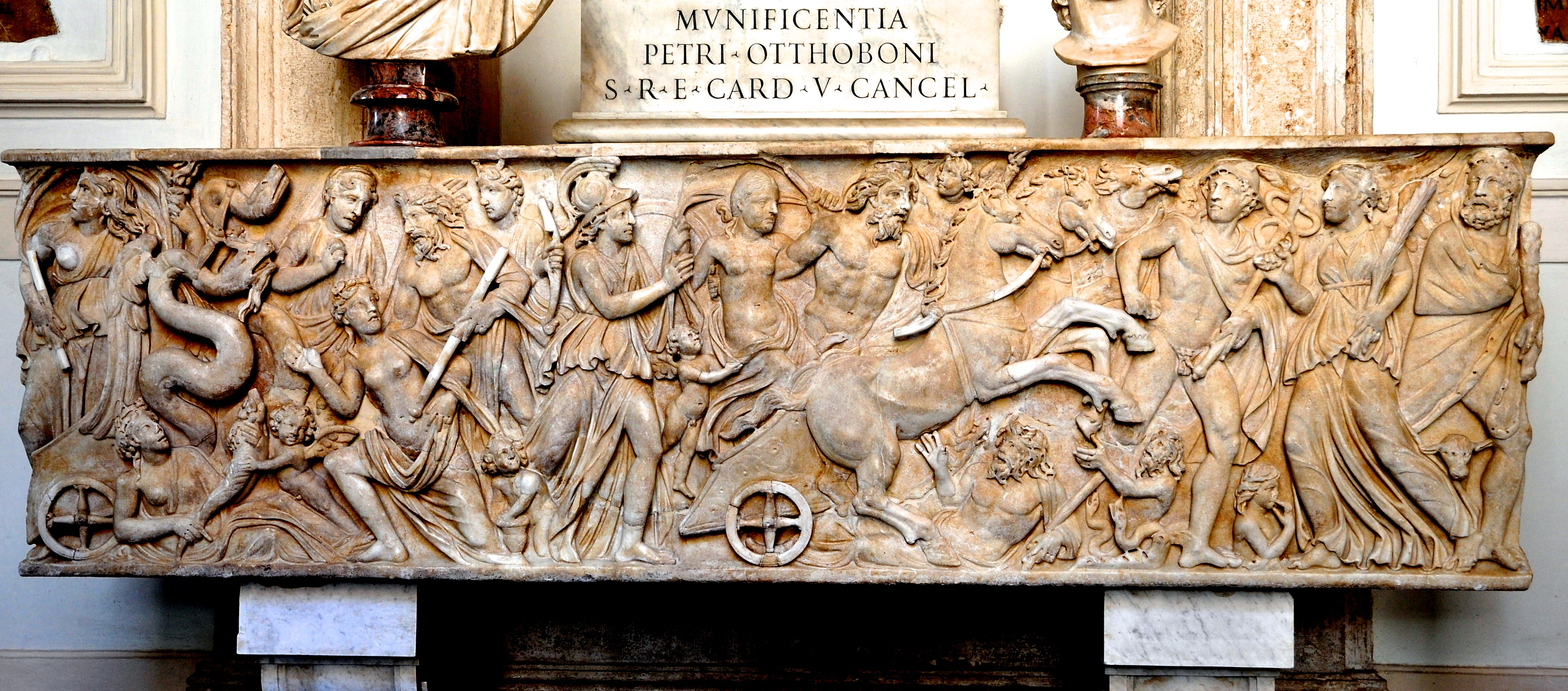 Roman sarcophagus showing the abduction of Persephone. Ca. 230 – 240 AD. Capitoline Museum, Rome. Photo by Mont Allen.